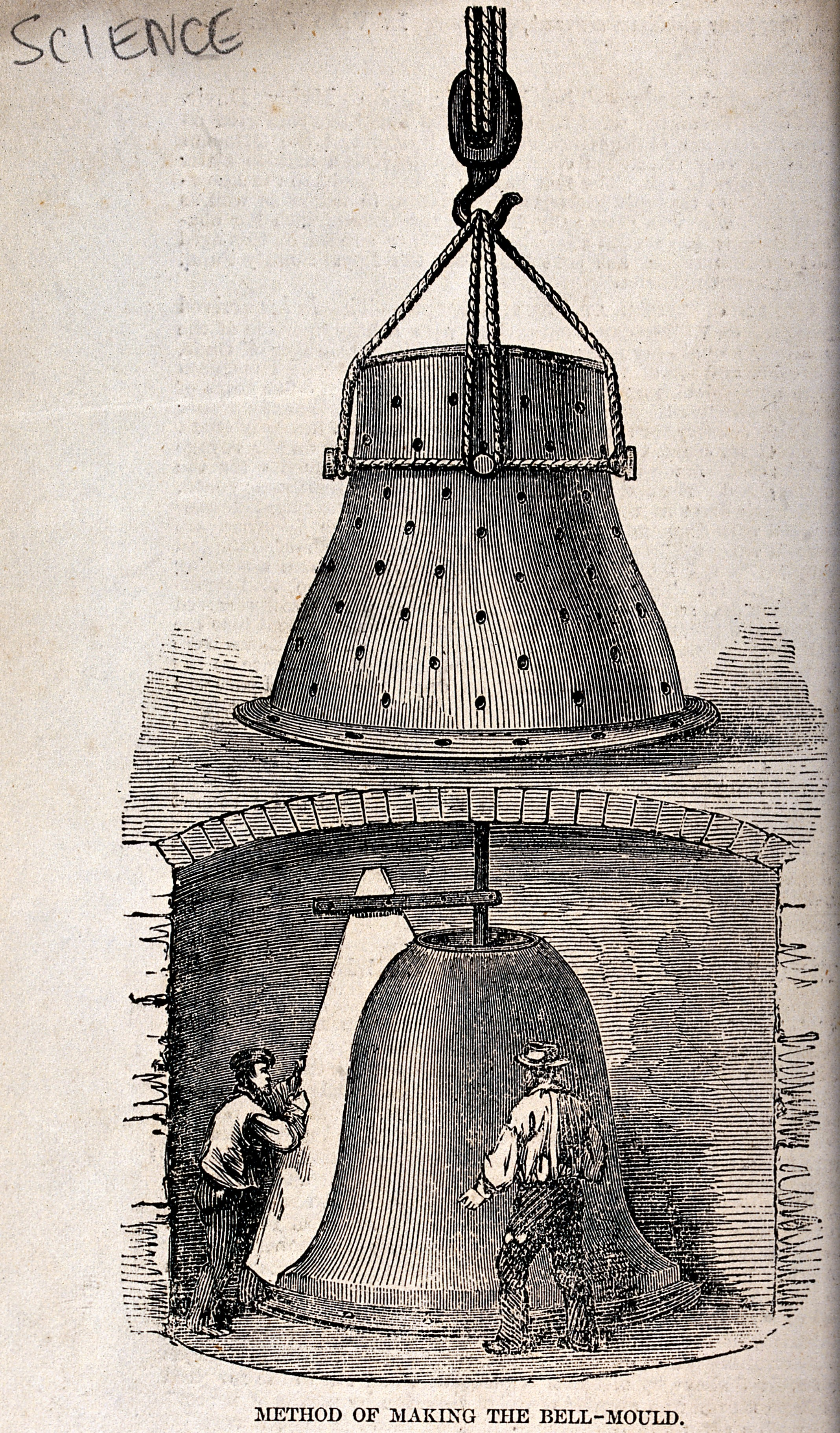 Metallurgy: casting a bell for the clock of the New Palace of Westminster. Wood engraving. Iconographic Collections